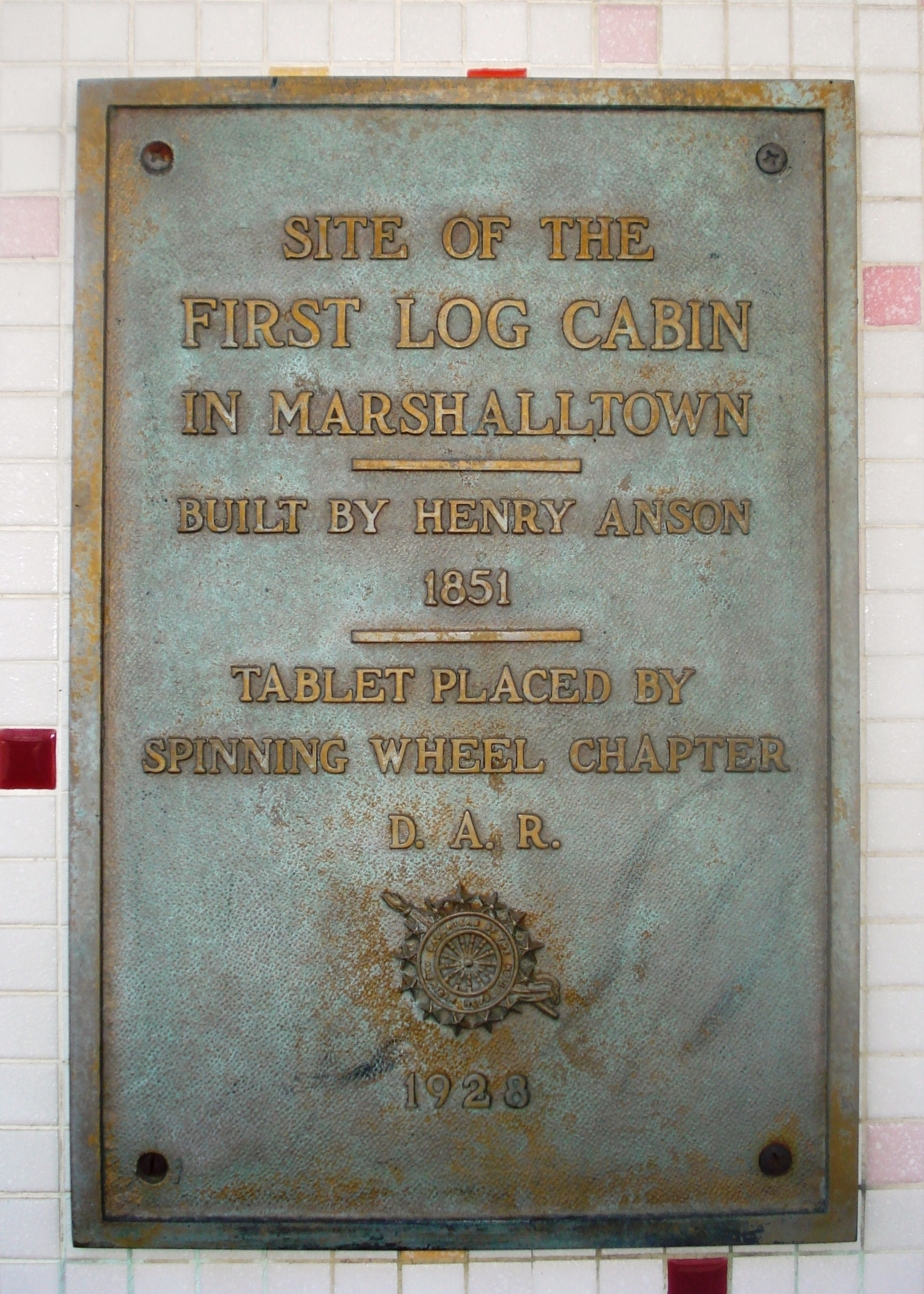 Plaque marking the location of the first home in Marshalltown, Iowa. Built by the town's founder, Henry Anson